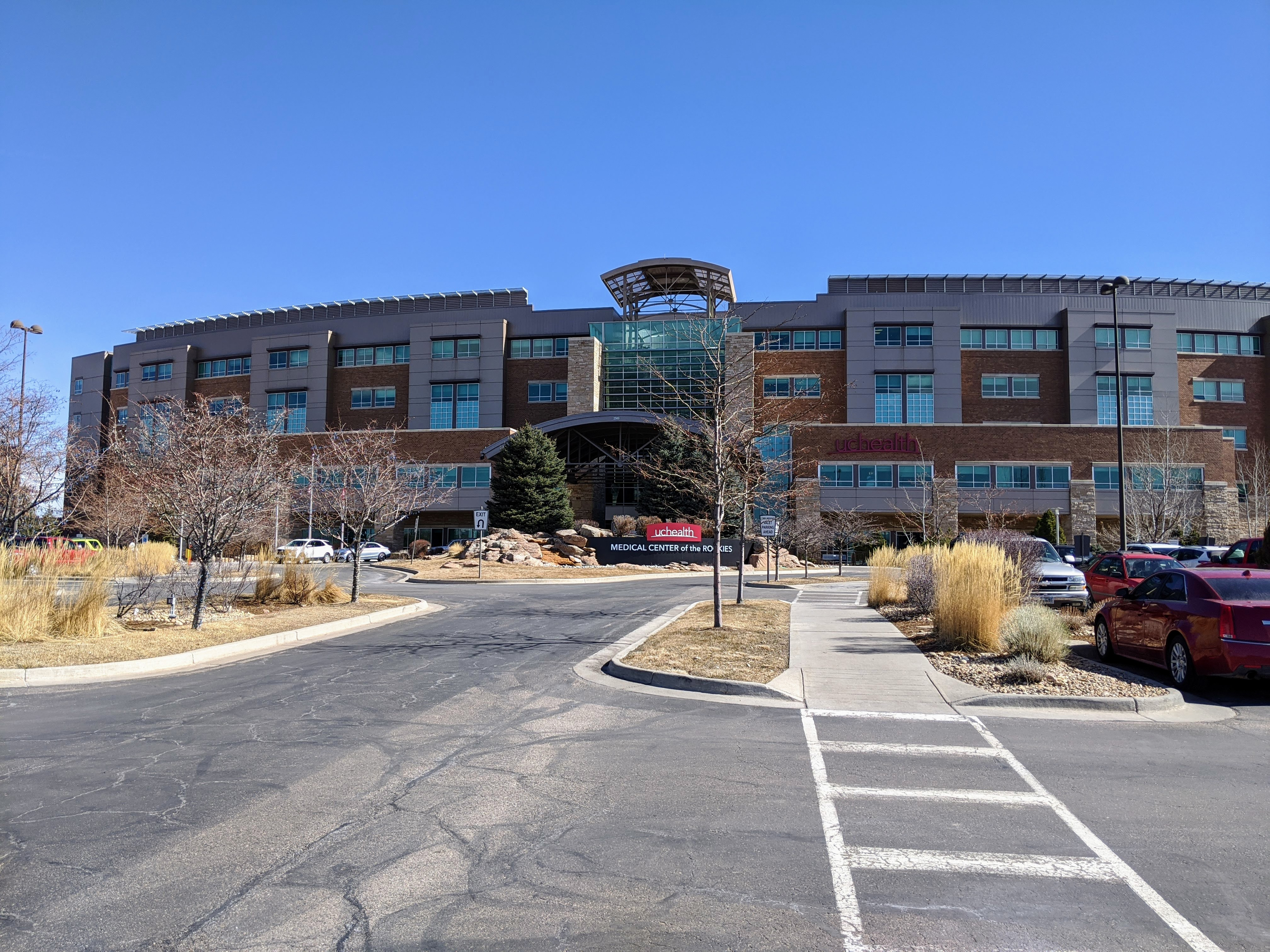 A view of the hospitals west side